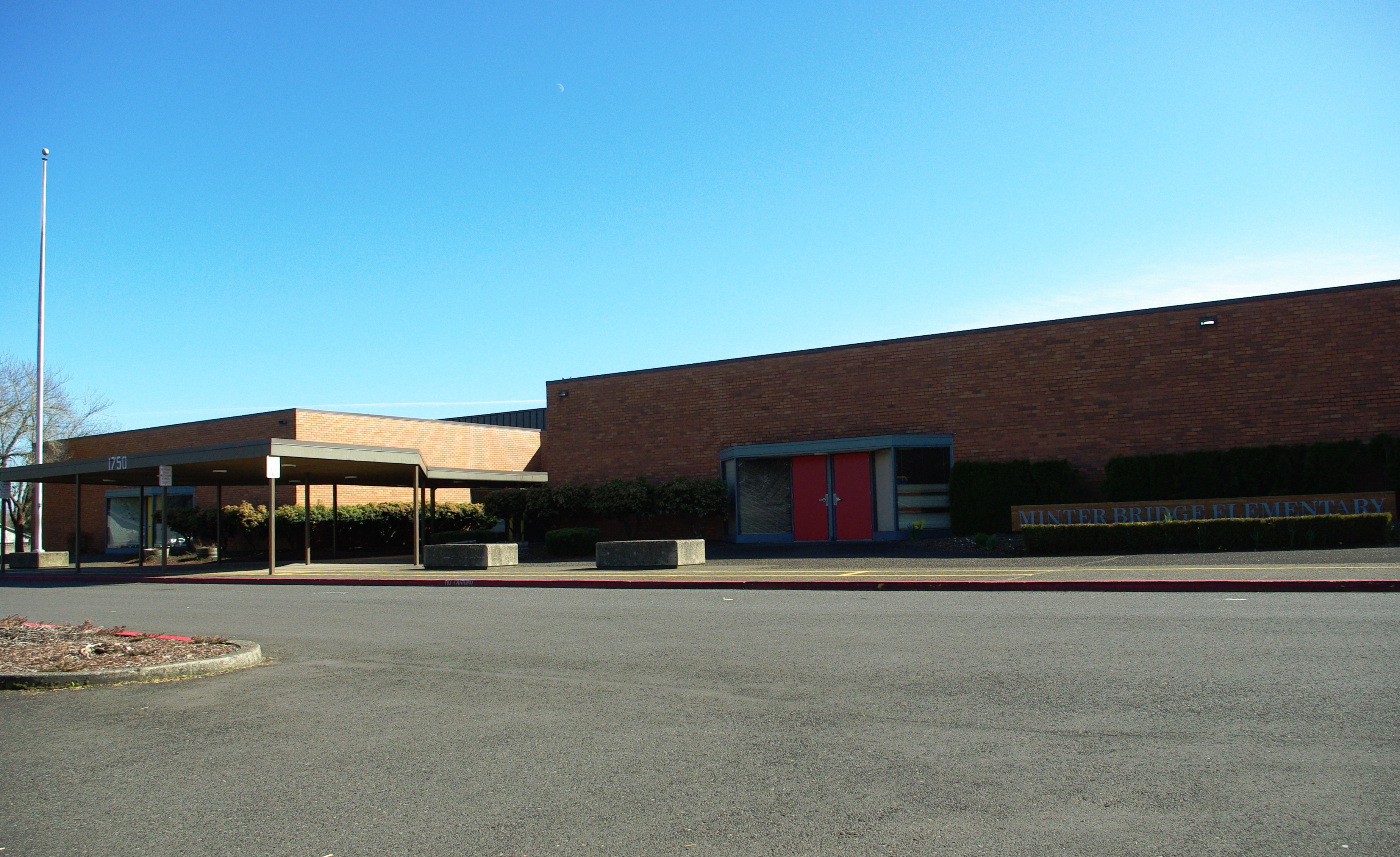 Minter Bridge Elementary School in Hillsboro, Oregon. Part of the Hillsboro School District.